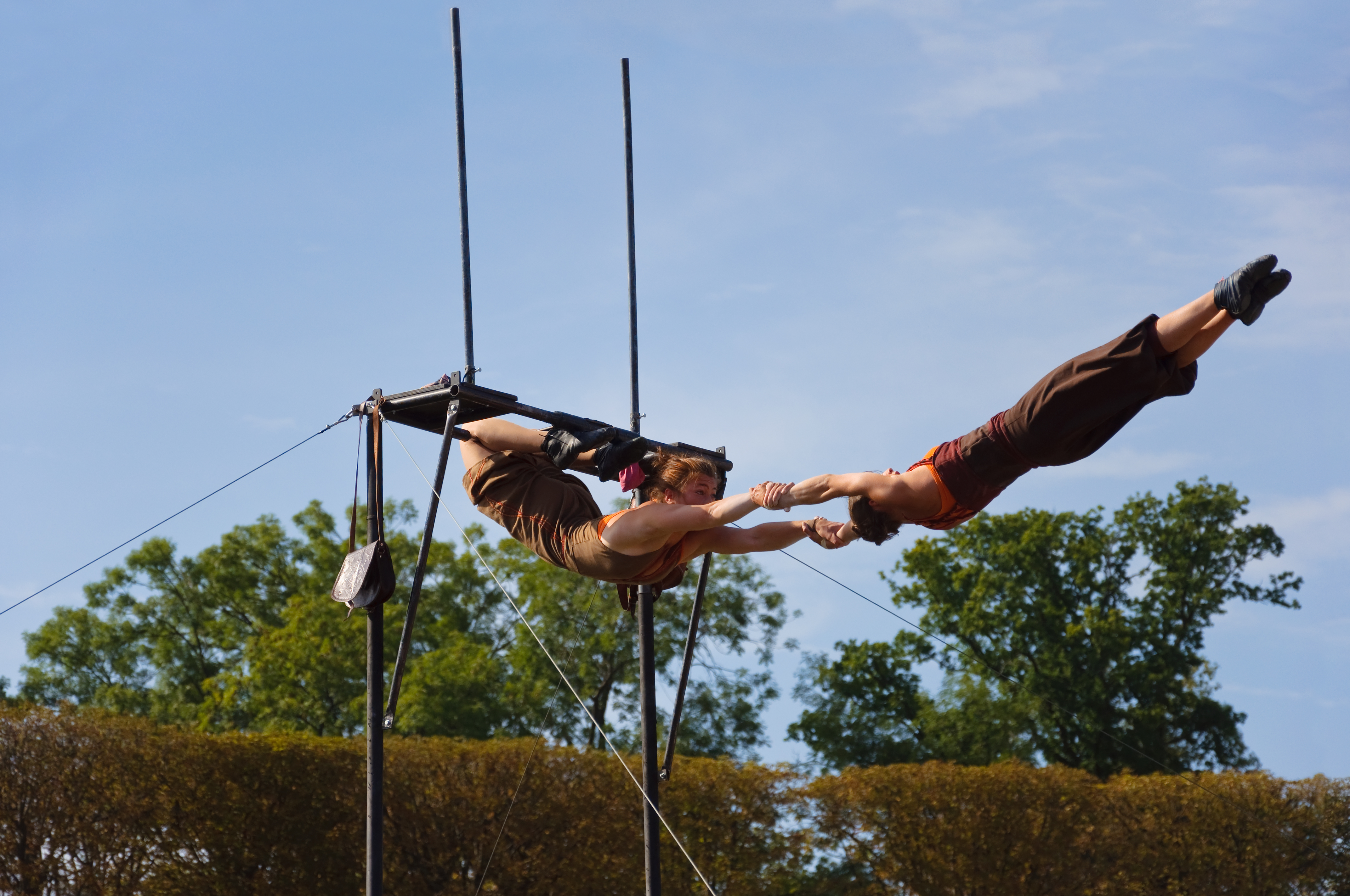 Aerial cradle performance. Compagnie Kaoukafela, Festival des arts de la rue et du cirque 2010, park of Sceaux, France.